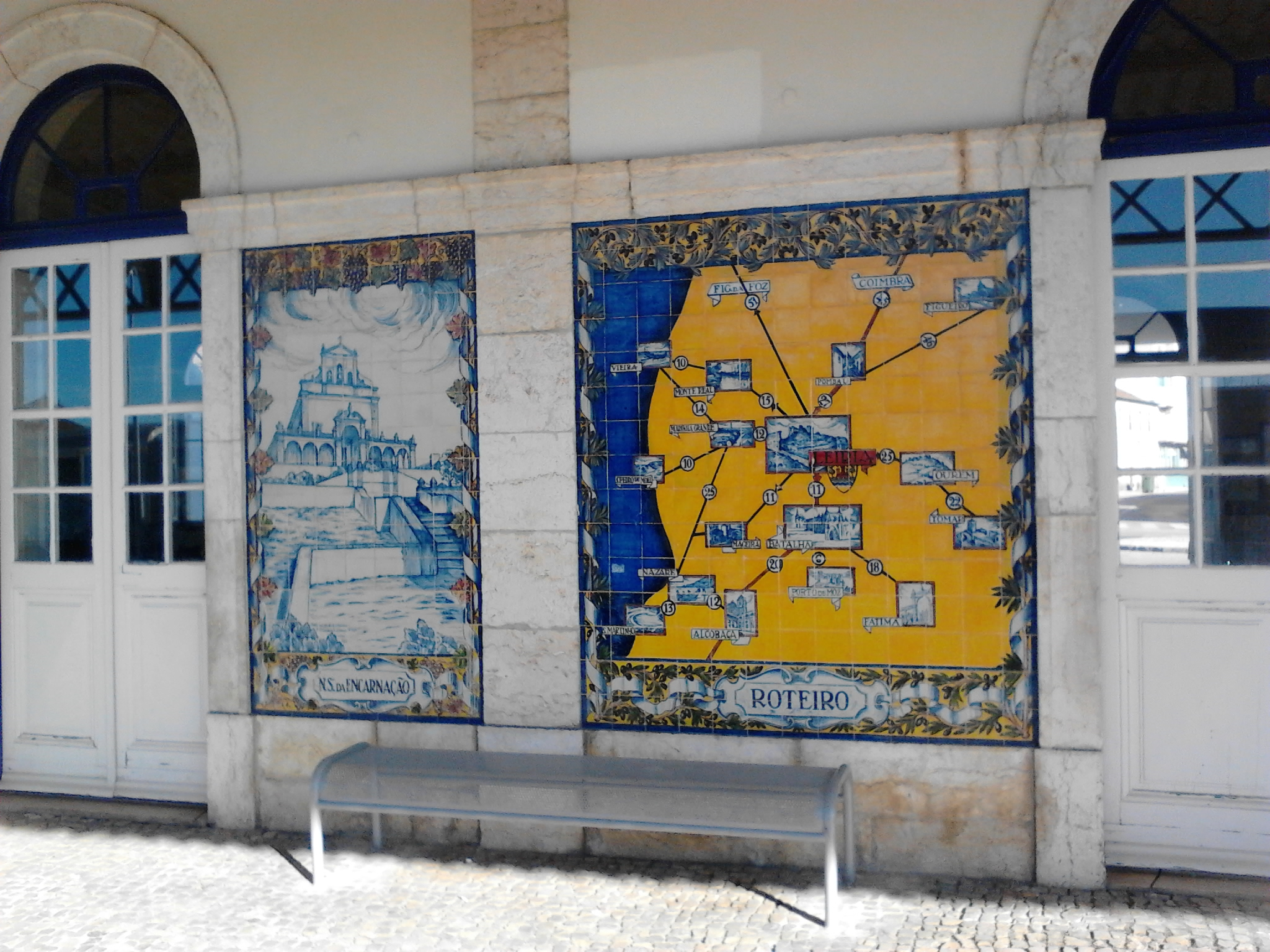 Tiles in Leiria train station